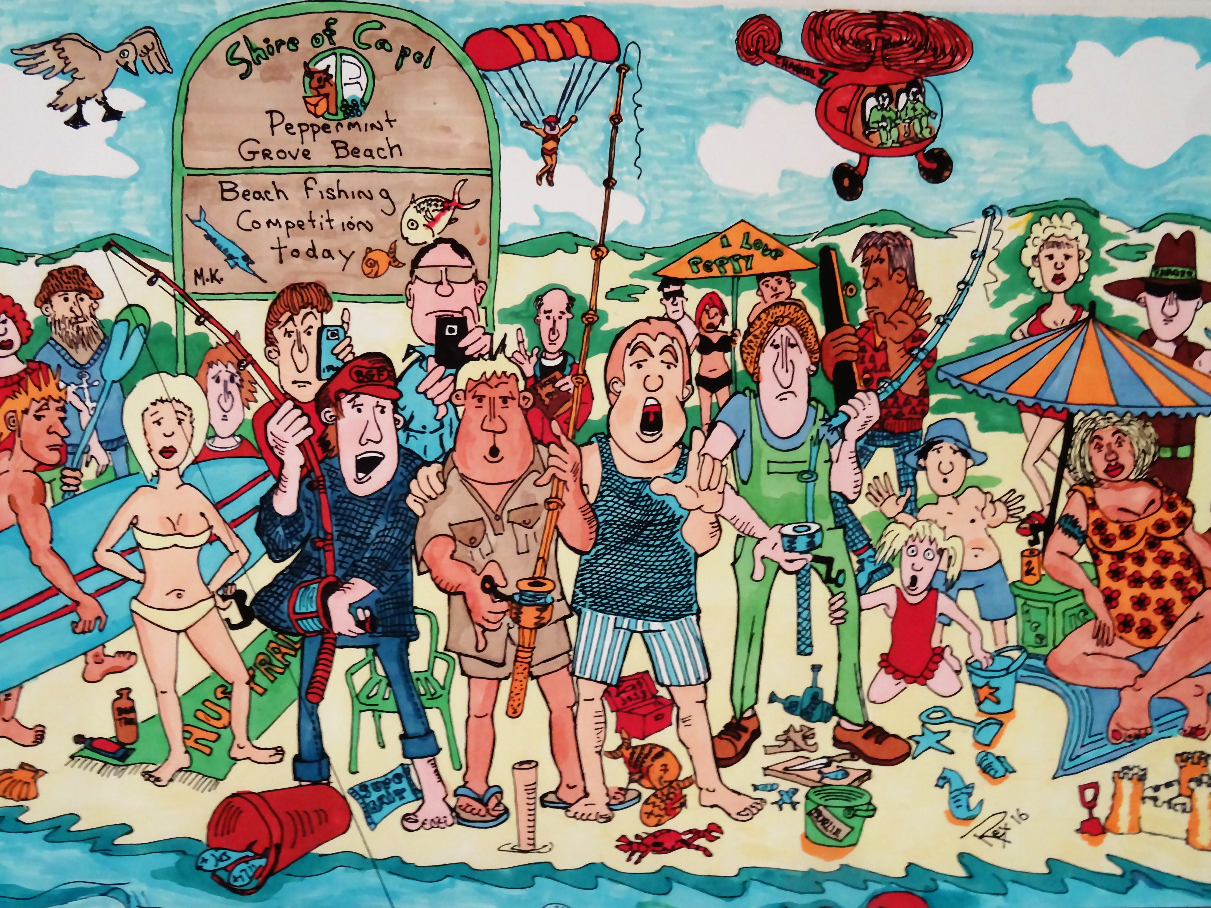 A cartoon by Australian cartoonist Rex Barber depicting a beach scene at Peppermint Grove Beach, Western Australia.